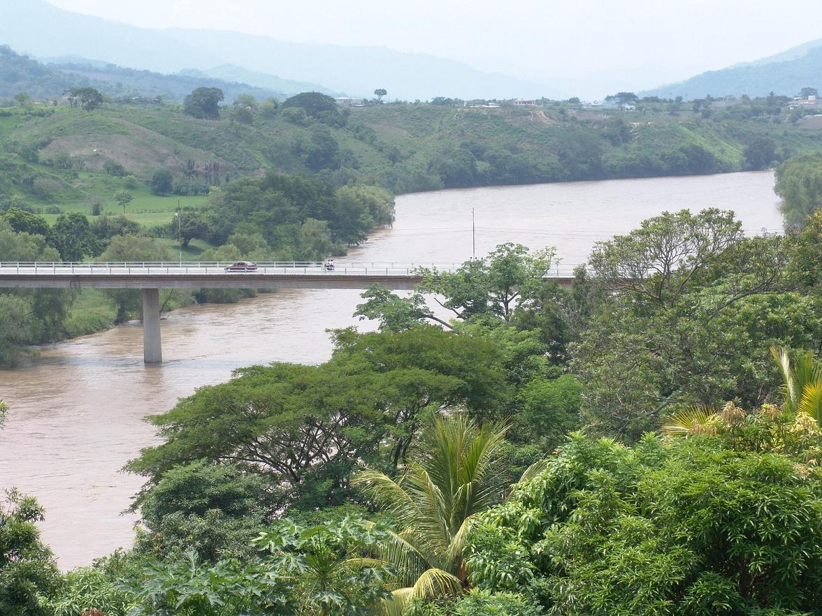 Bridge over the Motagua River connecting Gualán with the village of Mayuelas, Zacapa, Guatemala.